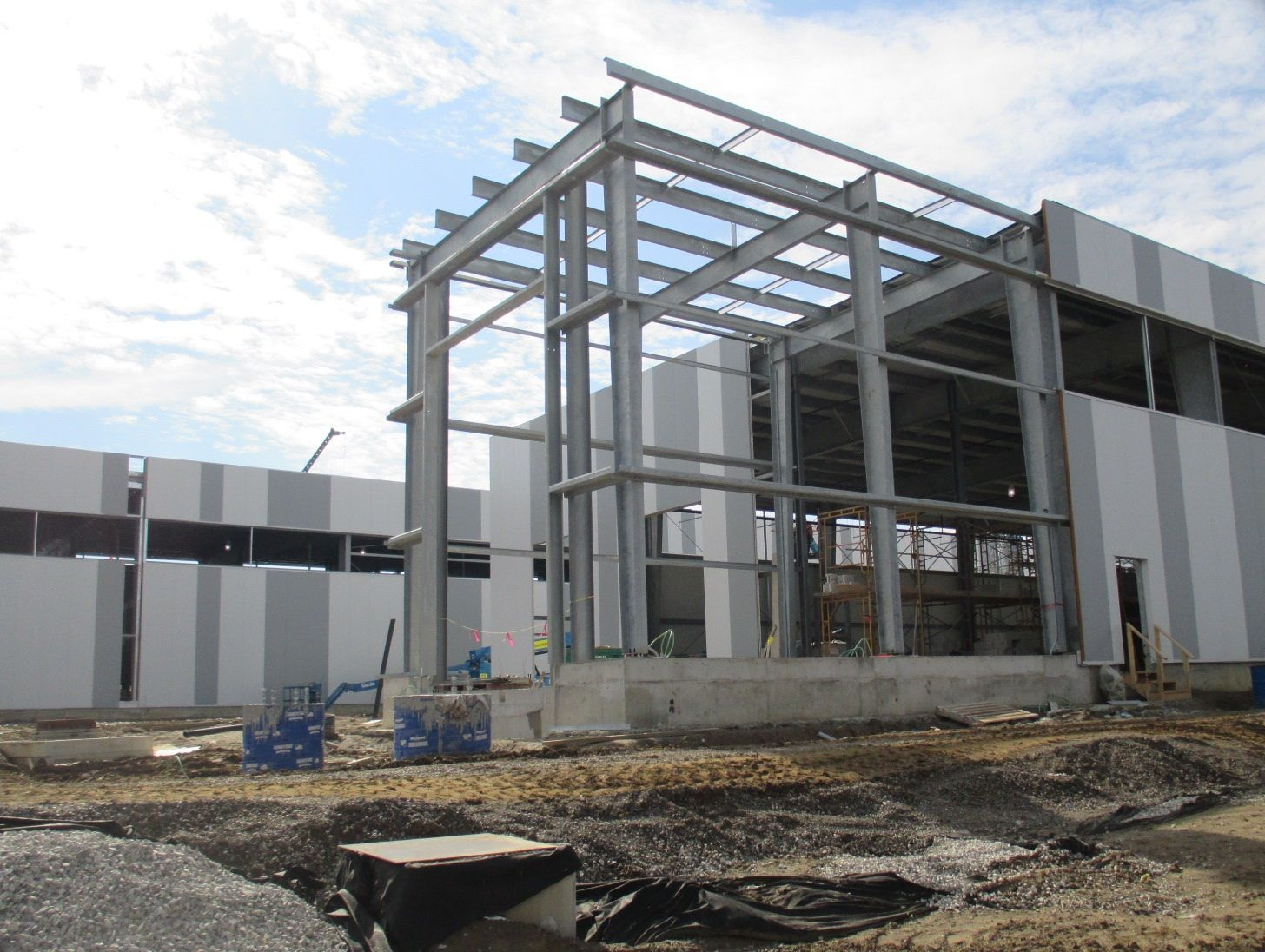 Eglinton Crosstown MSF building under construction In October 2017. The building shown is at the north-east corner of the MSF near Industry Street and Bertral Road.